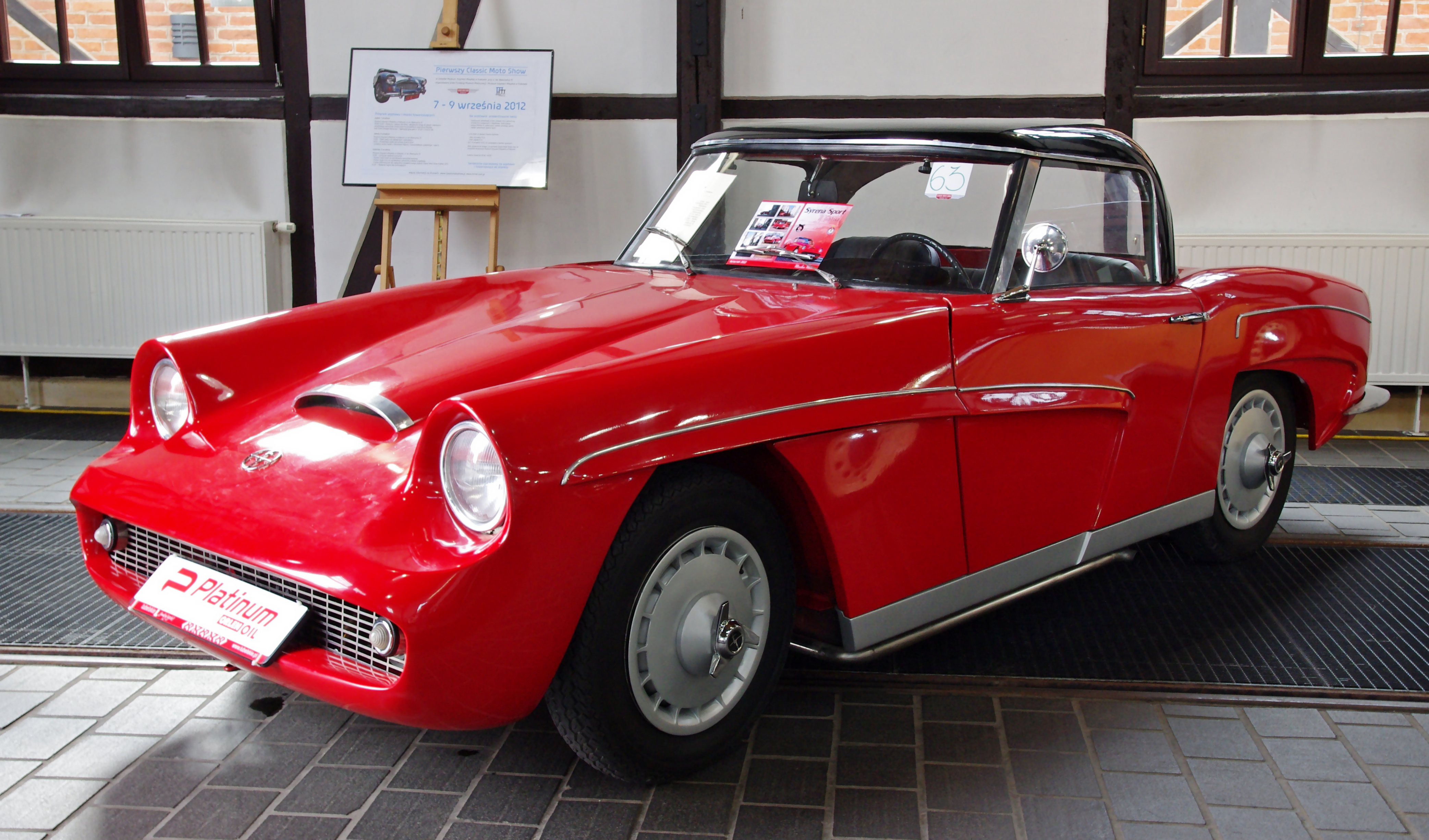 The Replica Of Syrena Sport at the Classic Moto Show in Kraków